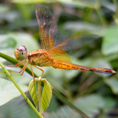 Ruddy Meadow Skimmer from Chalavara, Palakkad